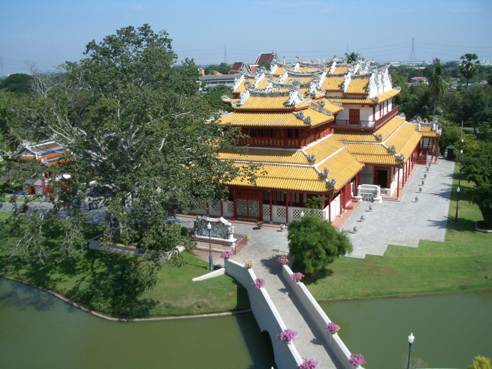 The Chinese-style royal palace at Bang Pa-In